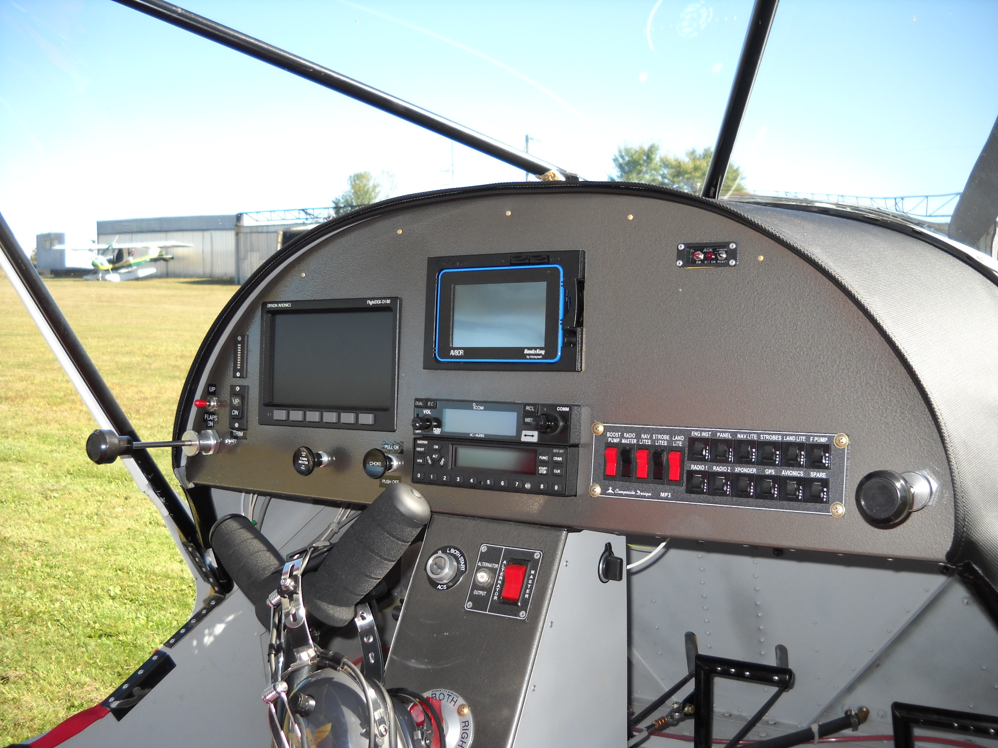 Zenair STOL CH 750 at the Carleton Place, Ontario, Canada Fly-in, showing instrument panel